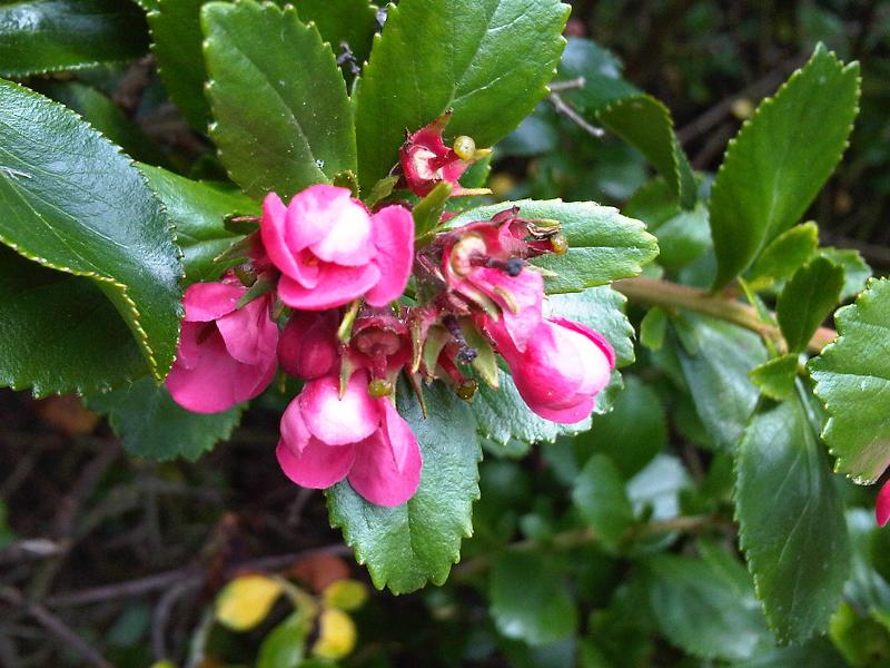 Escallonia rubra var. macrantha flowers in WWT London Wetland Centre, England.